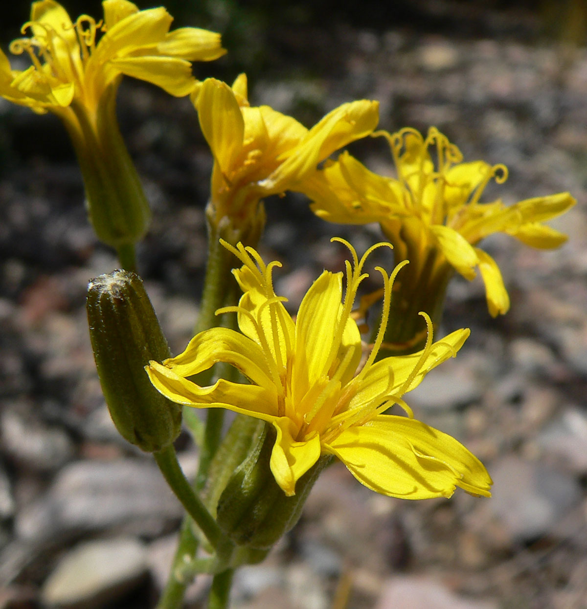 Crepis intermedia near road 592(?) about 2 km northeast of Mount Stirling, Spring Mountains, southern Nevada (elev. about 1900 m); although these individuals are less tomentose than usual for C. intermedia, the species is known to be highly variable, and the outer phyllaries are smaller than would be expected for C. occidentalis